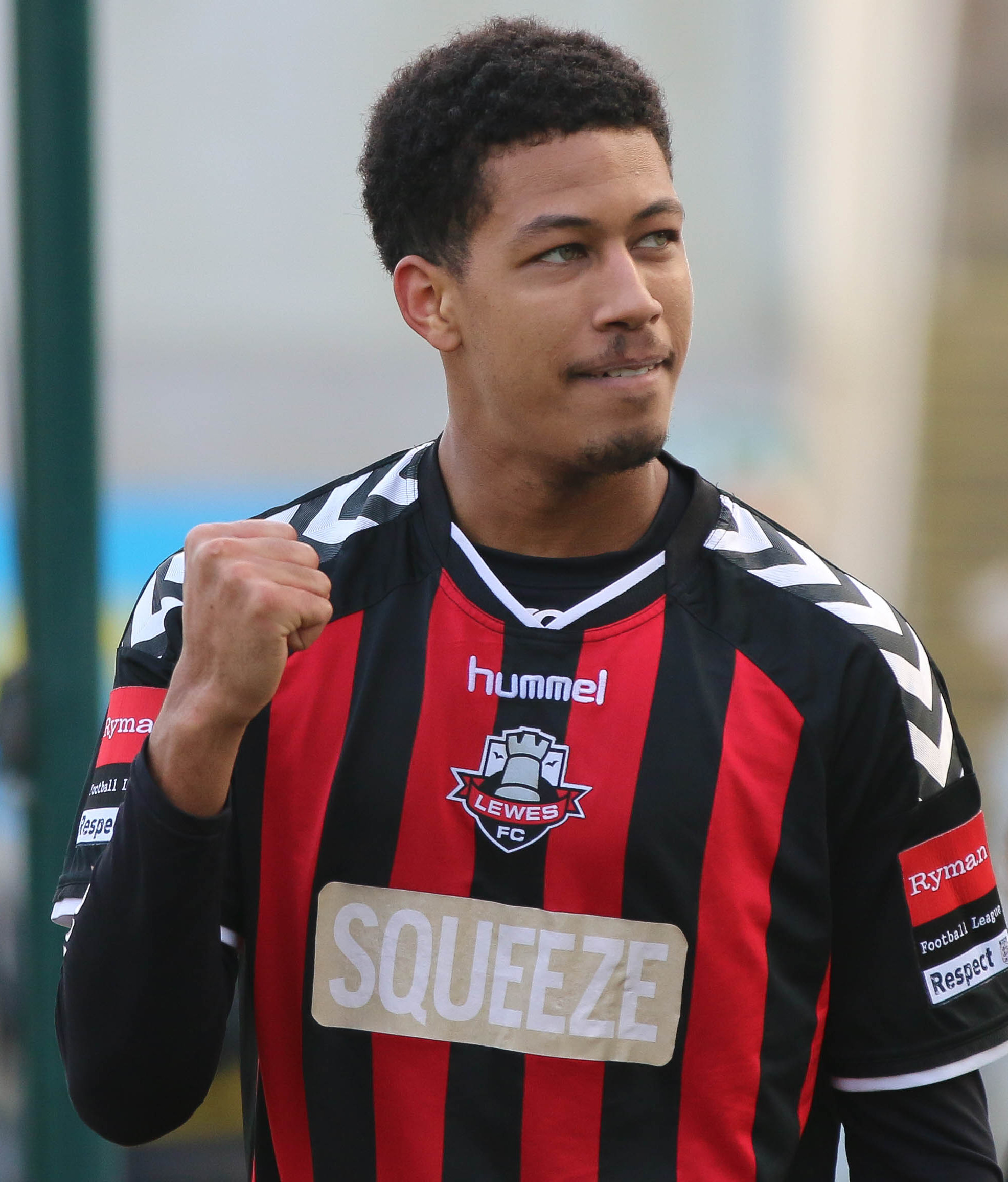 Jonté Smith playing for Lewes against VCD Athletic.